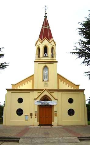 Church in Colonia Hinojo, Olavarría, Buenos Aires Province, Argentina (Volga German colony)